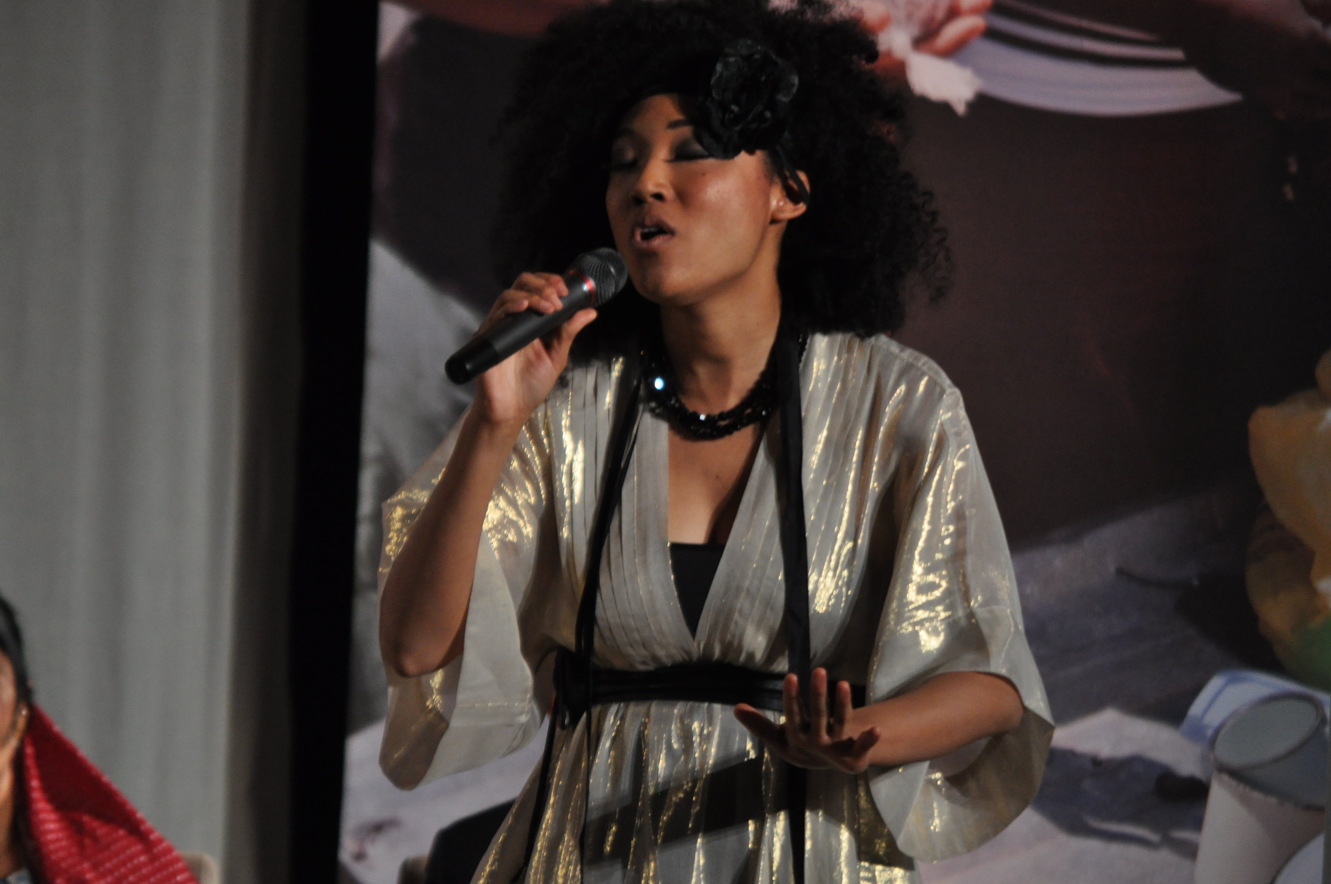 Judith Hill performs a song at the end of the 2011 International Women of Courage Ceremony. (Photo by Roshan Nebhrajani Medill News Service)